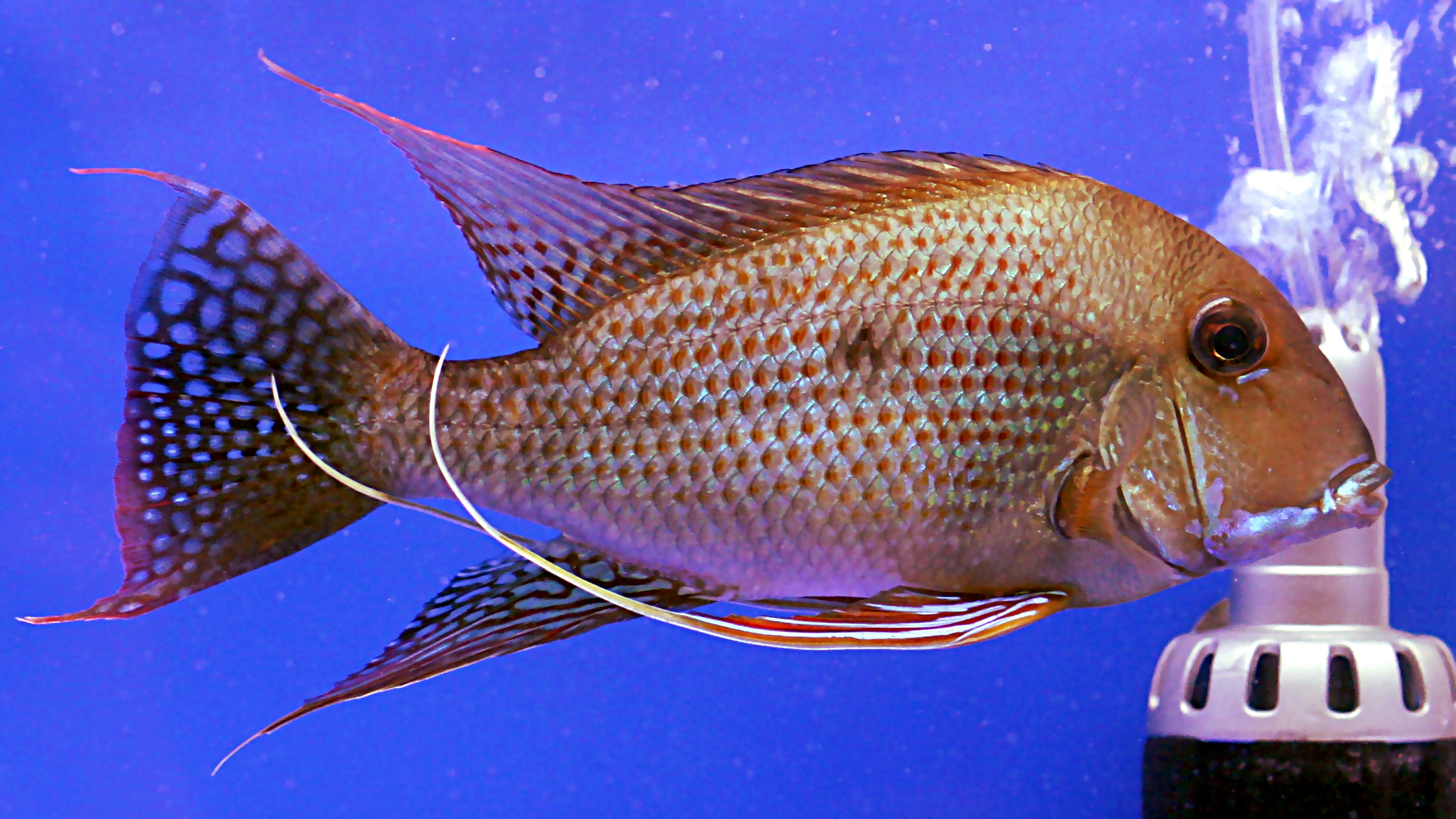 A Geophagus surinamensis from The 6th "Pramong Nomjai Thaituala" Thailand Tropical Fish Competition 2007.